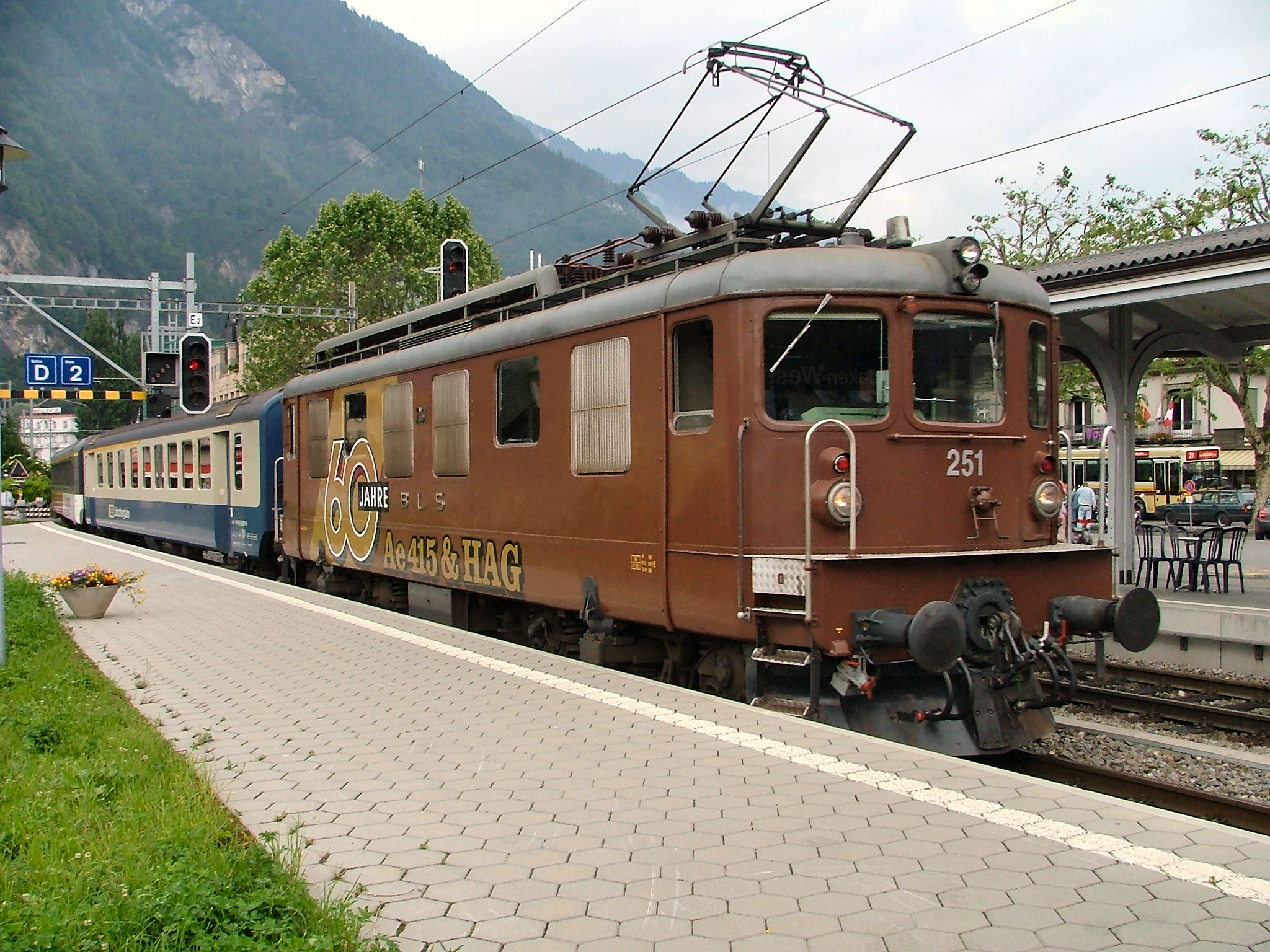 BLS Locomotive No. 251, type Ae4/4 at station Interlaken West (Switzerland)